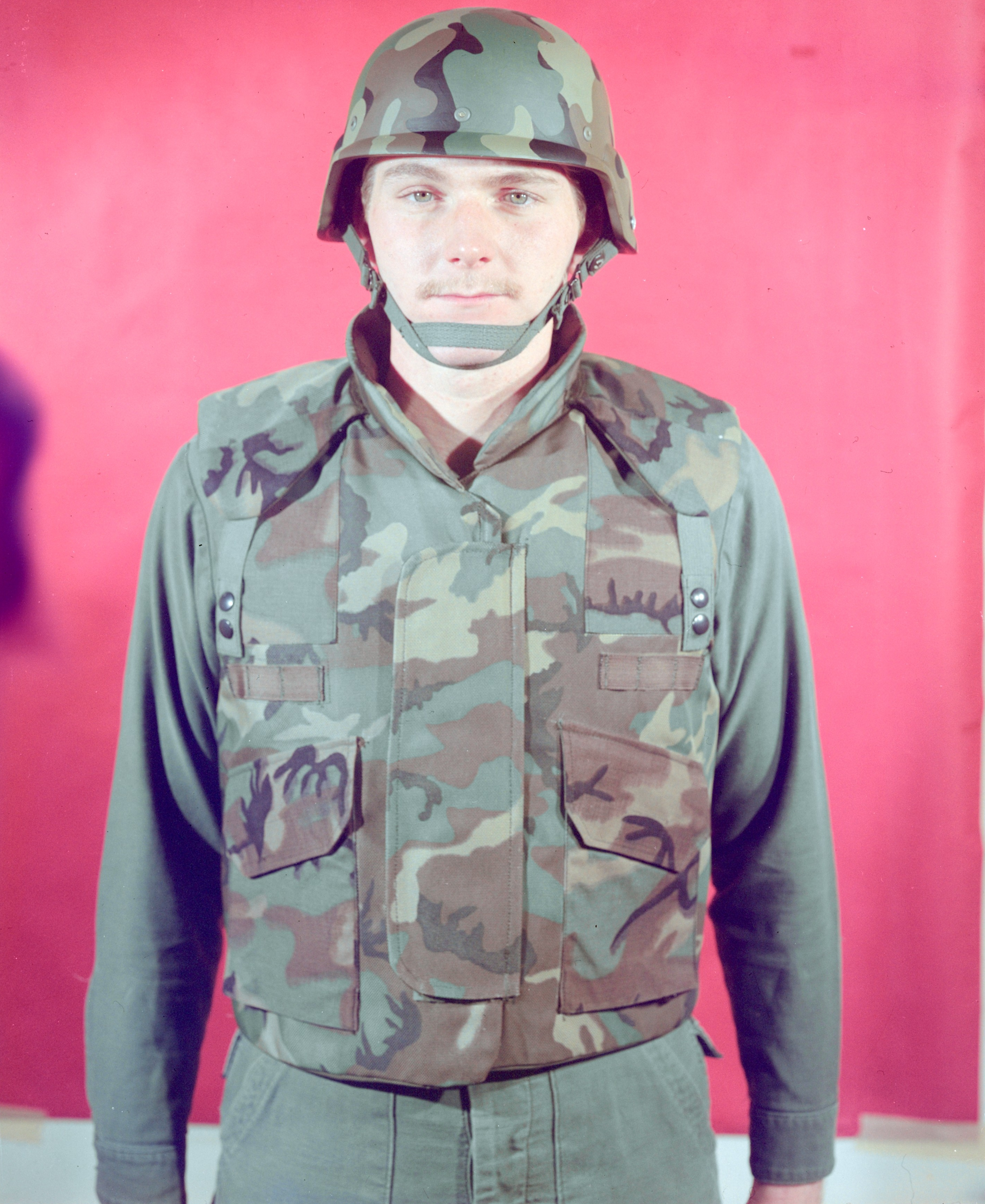 Man modelling early protoype of PASGT in 1975